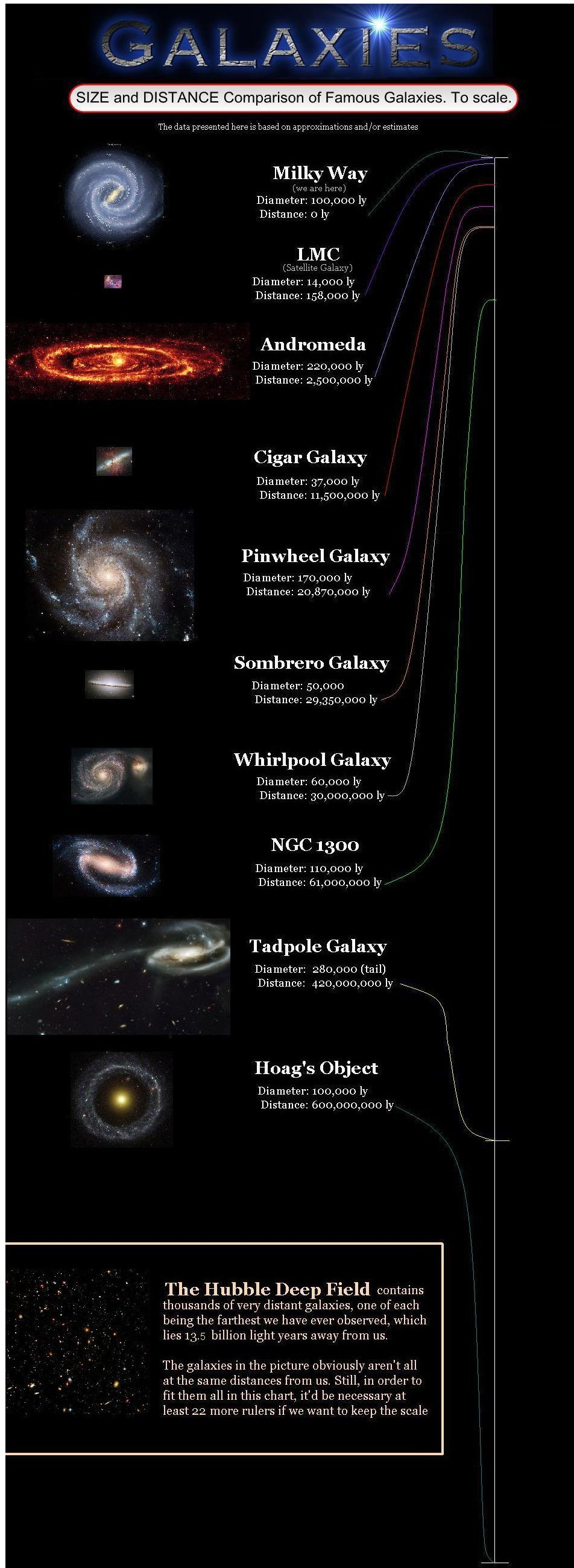 Size and Distance of Famous Galaxies